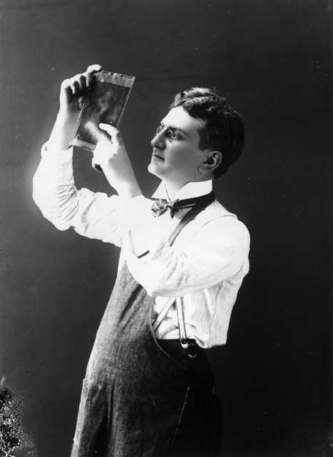 Self portrait of photographer George Lytle Beam examining a glass plate. He wears a lab apron, striped bow tie, white shirt with wing-tip collar and his pince-nez eyeglasses. Colorado, about 1893.